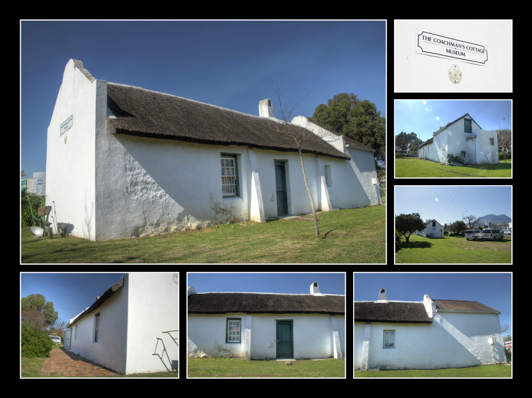 Coachman's Cottage, 23 Andries Pretorius Street, Somerset West This media shows a South African Protected Site with SAHRA file reference 9/2/083/0040/001.